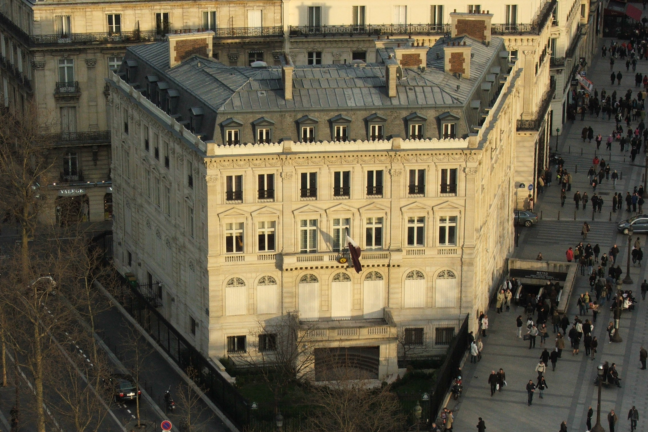 Embassy of the Qatar in Paris - France located in Place de l'Etoile - Charles de Gaulle.